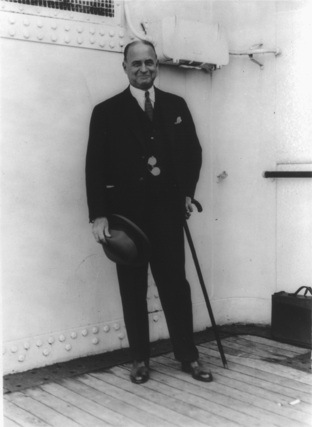 Admiral Mark L. Bristol